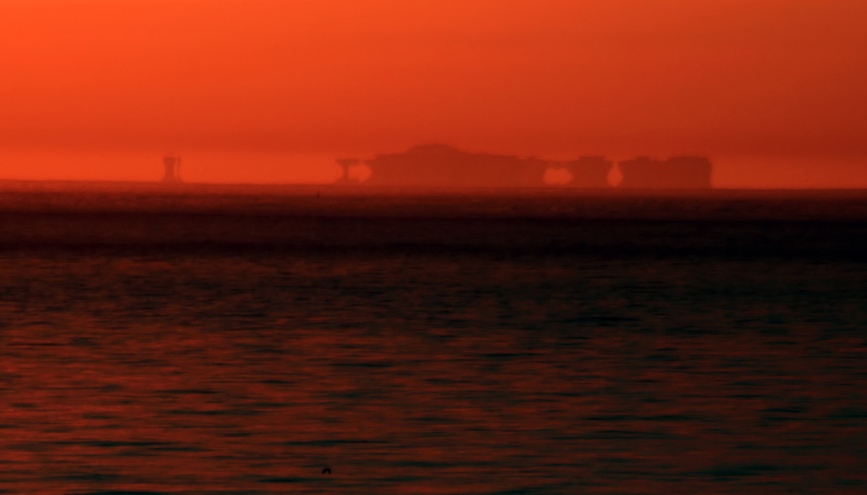 Superior Mirage of Farallon Islands. It is 3-image mirage (Inverted image between erect ones).